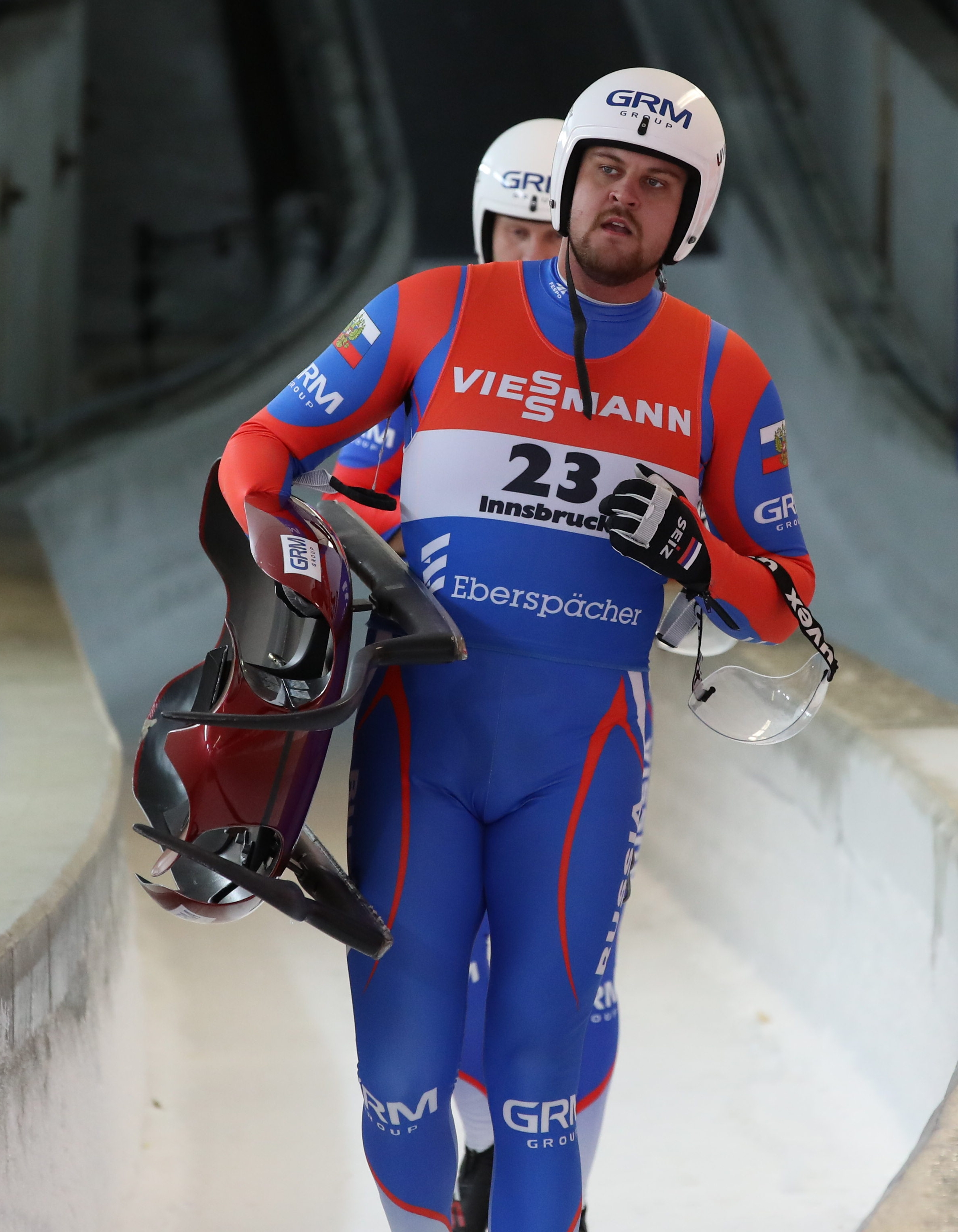 Doubles World Cup race at the 2019/20 Luge World Cup in Innsbruck-Igls